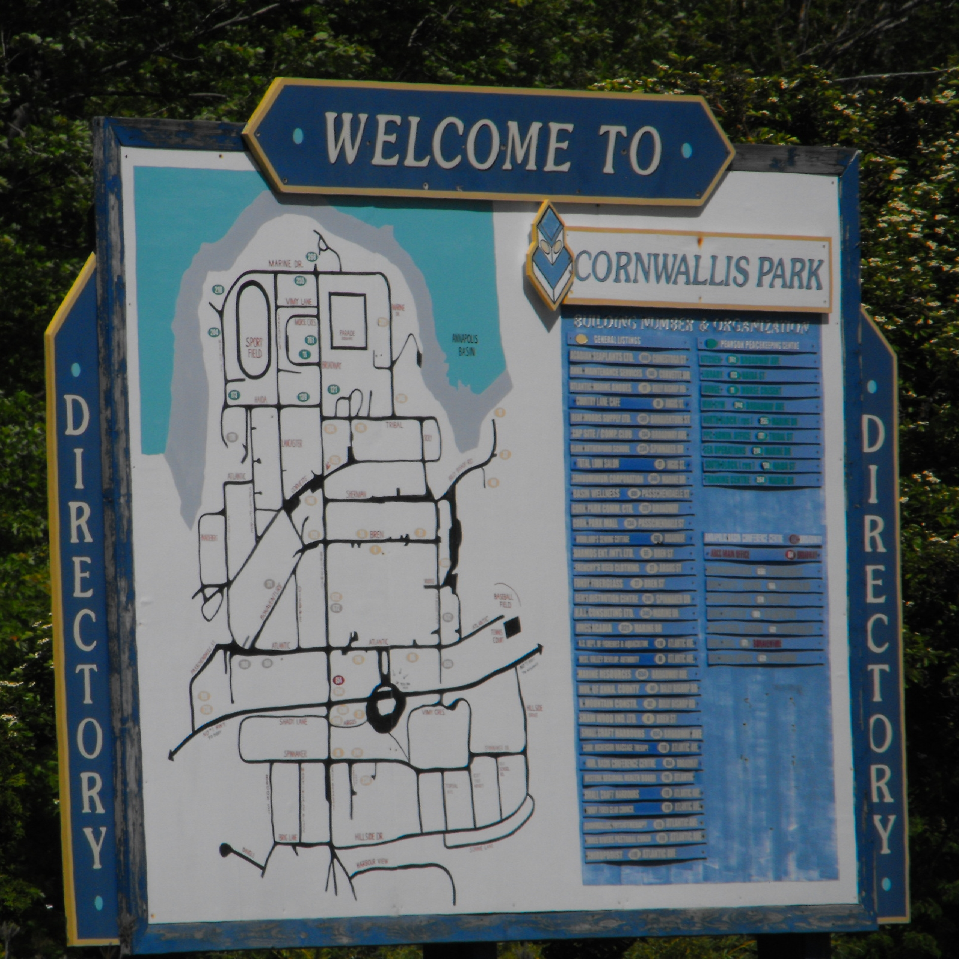 Entry sign - Cornwallis Park (former Canadian naval base), Annapolis County, Nova Scotoa